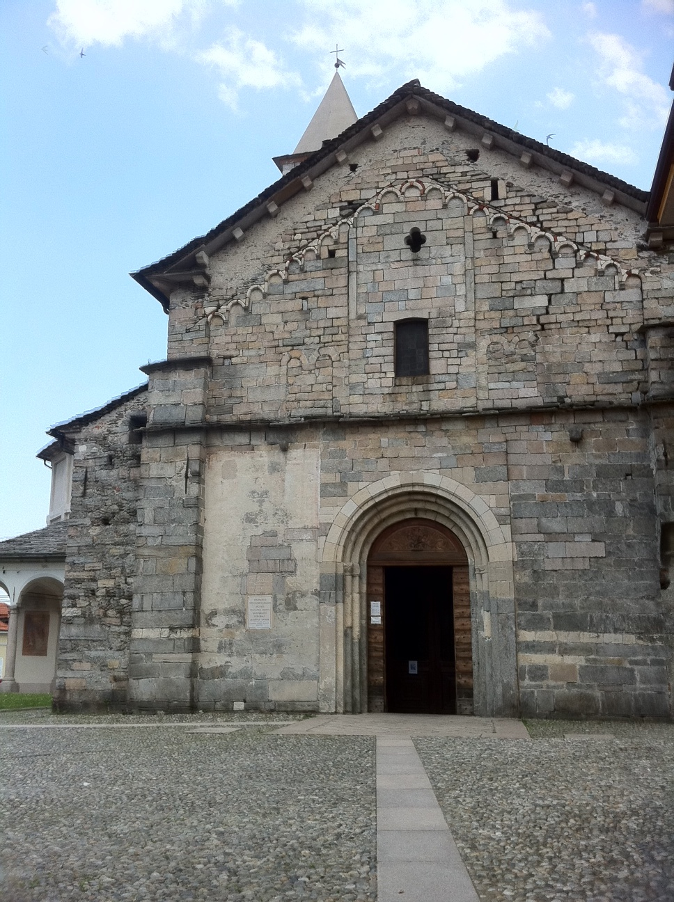 Church of Saints Gervasio and Protasio in Baveno, Italy